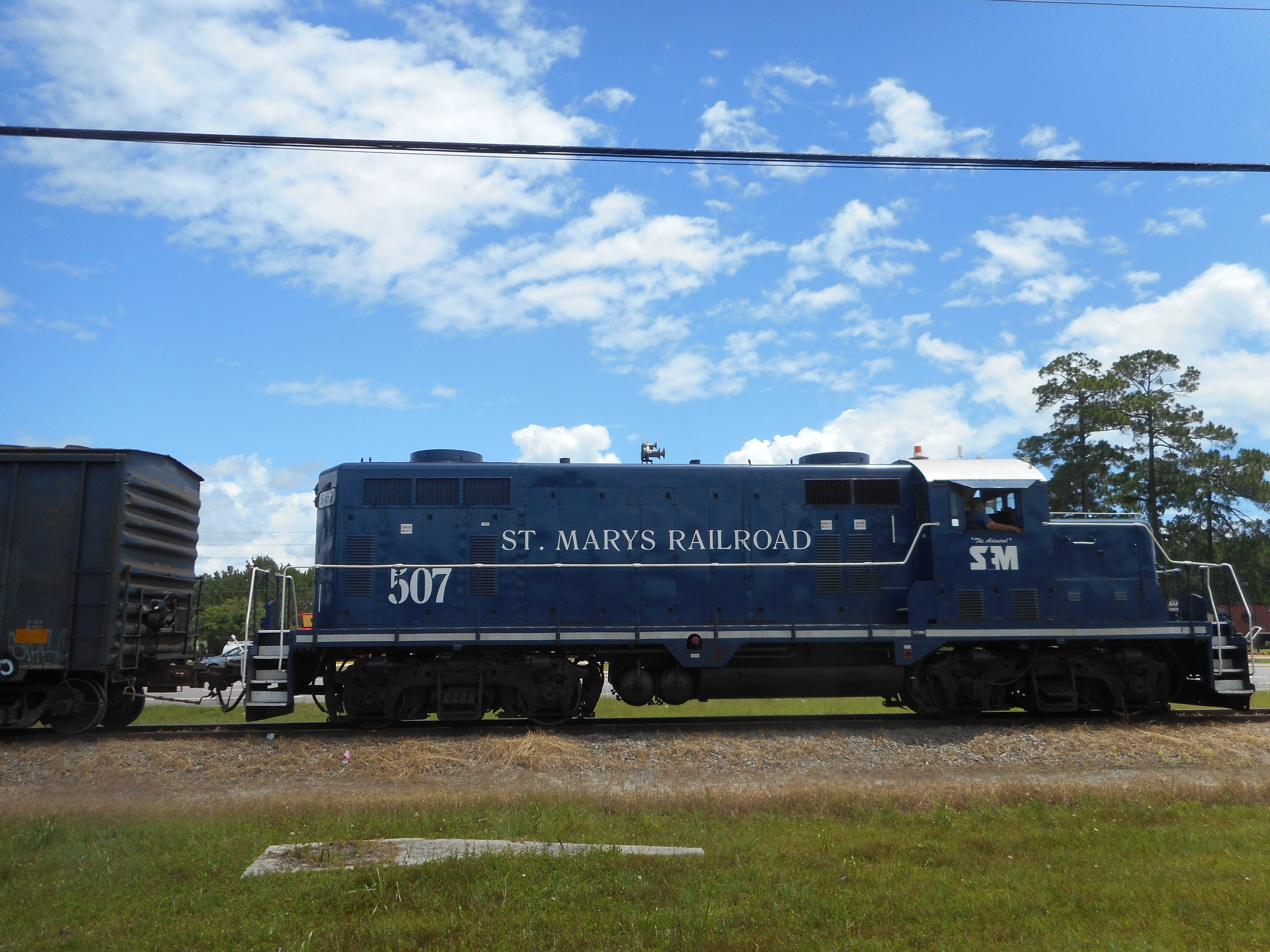 A Saint Marys Railroad freight train momentarily cuts off access between Georgia State Route 40 and the frontage road on the south side, west of Exit 3 on Interstate 95 in Kingsland, Georgia. This was taken from across the frontage road from the Kingsland Welcome Center, which should not be confused with the Welcome Center off of I-95 at northbound Exit 1.